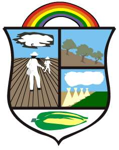 this file is the first vectorization of the scude of romita